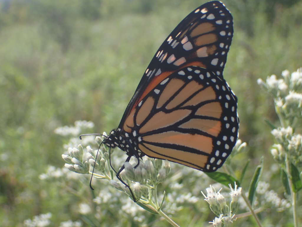 A monarch on late boneset